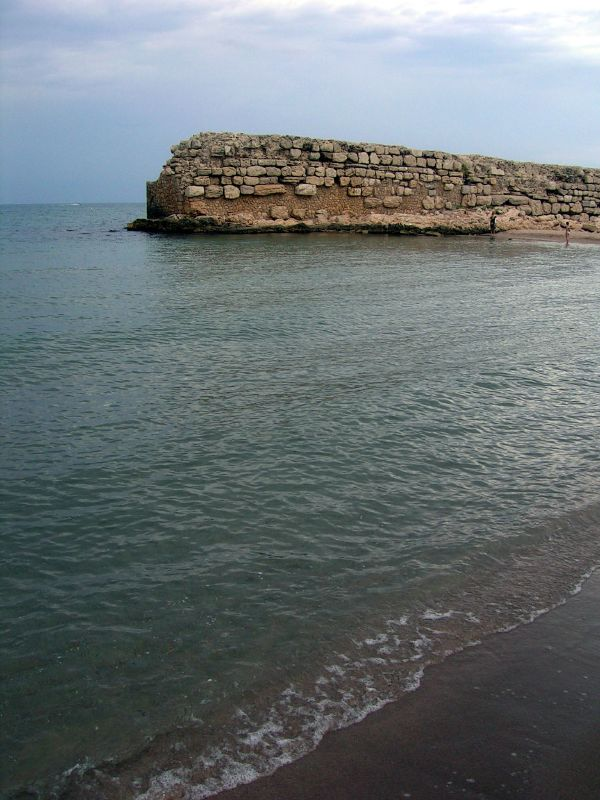 This is the greek-roman dock of Empúries (Ampurias is the castillian name). Swimming here is amazing. And touching these stones... The city was founded in 575 BC by Greek colonists from Phocaea and its population increased considerably when the Persian king Cyrus II conquered Phocaea some decades later. It was situated on the commercial route between Massalia (Marseille, France) and Tartessos (the richest native kingdom), so it developed into a large economic and commercial centre and the largest Greek colony in the Iberian Peninsula. During the Punic Wars, Empúries allied itself with Rome, and Publius Cornelius Scipio initiated the conquest of Hispania from this city in 218 BC. The first roman legions landed here, on this sand covered now with towels and people from all around Europe. PS: At the end of the 3rd century the Greek town was abandoned while the Roman town survived until the Viking raids of the 9th century.